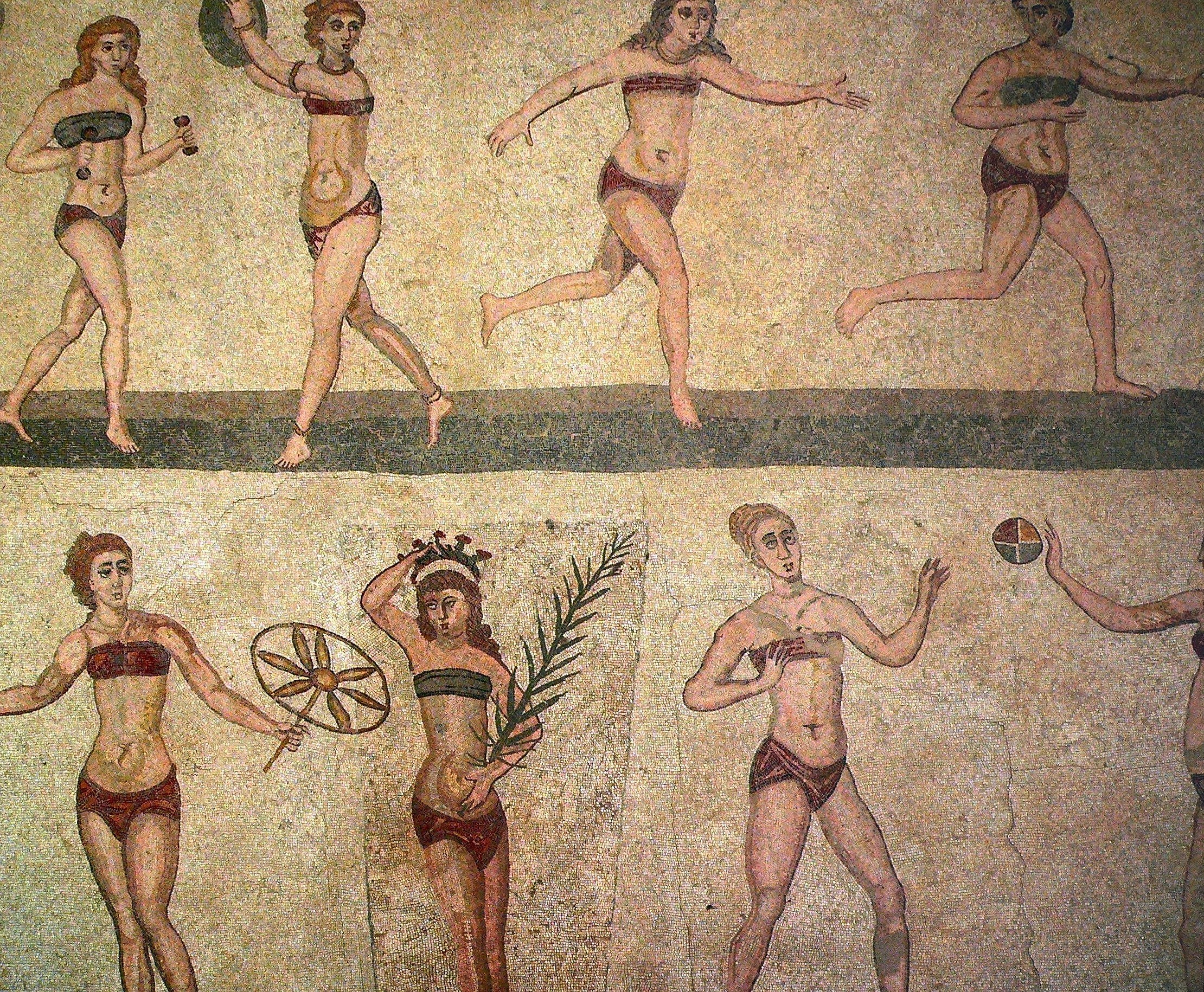 Famous "bikini girls" mosaic (found by archeological excavation of the ancient Roman villa near Piazza Armerina in Sicily), showing women exercising, running, or receiving the palm of victory and crown (for winning an athletic competition). Bikini Mosaic Villa Romana del Casale